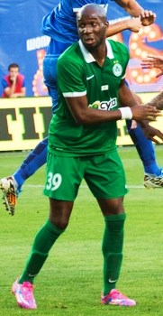 Mickaël Poté